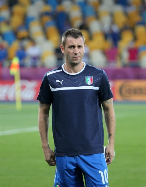 Antonio Cassano before Euro 2012 match against England